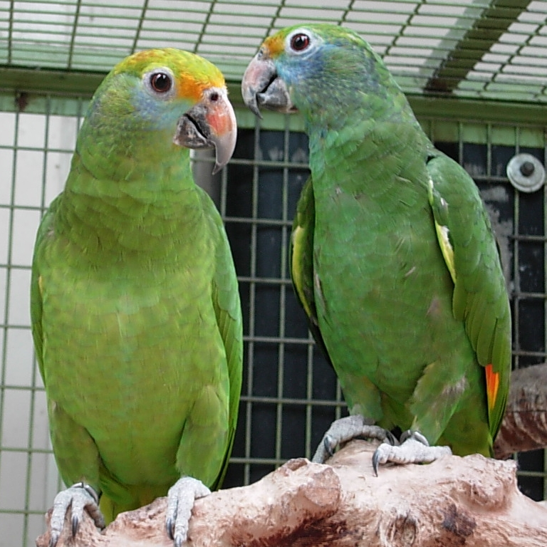 Blue-cheeked Amazon (also known as Blue-cheeked Parrot or Dufresne's Amazon). Two in a cage with nesting box.